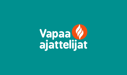 Logo of the.